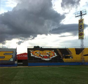 Aurora F.C. Stadium